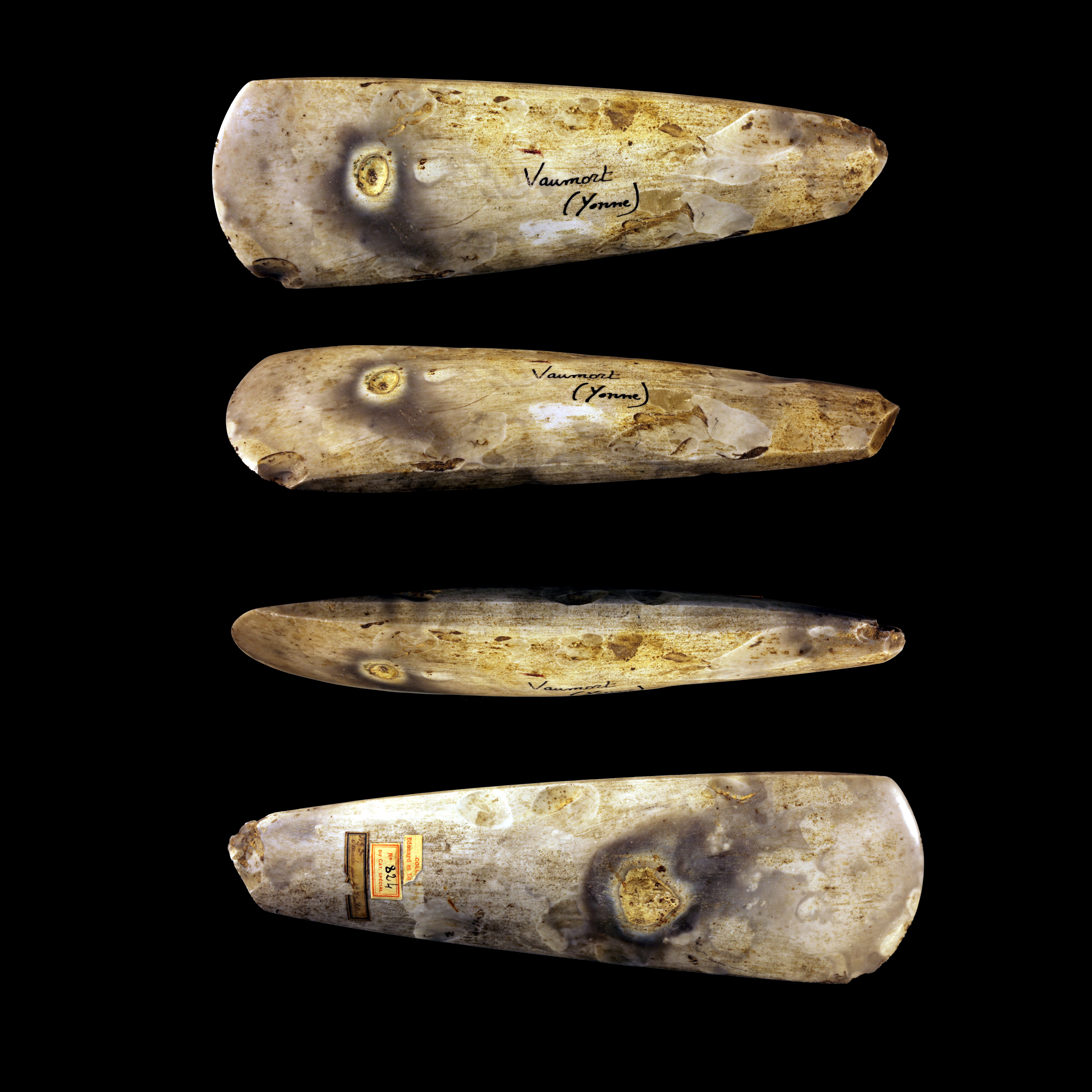 polished flint axeDifferent views of the same specimen.